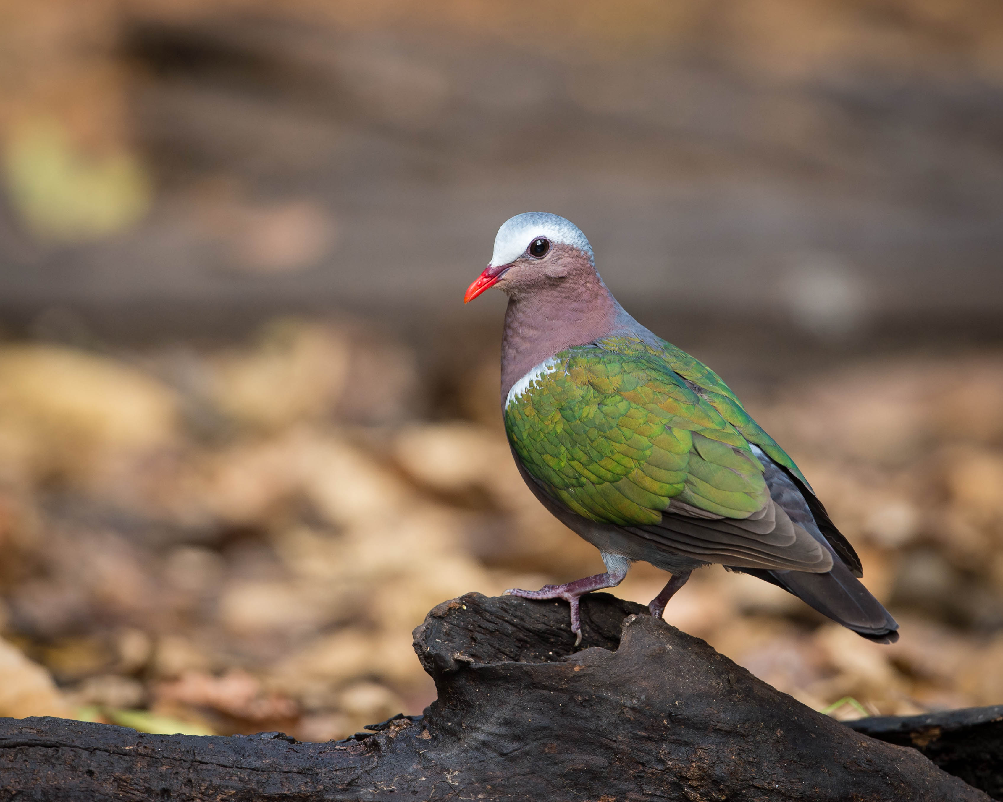 Emerald Dove (Chalcophaps indica) at Kaeng Krachan National Park, Thailand. 5 March 2013